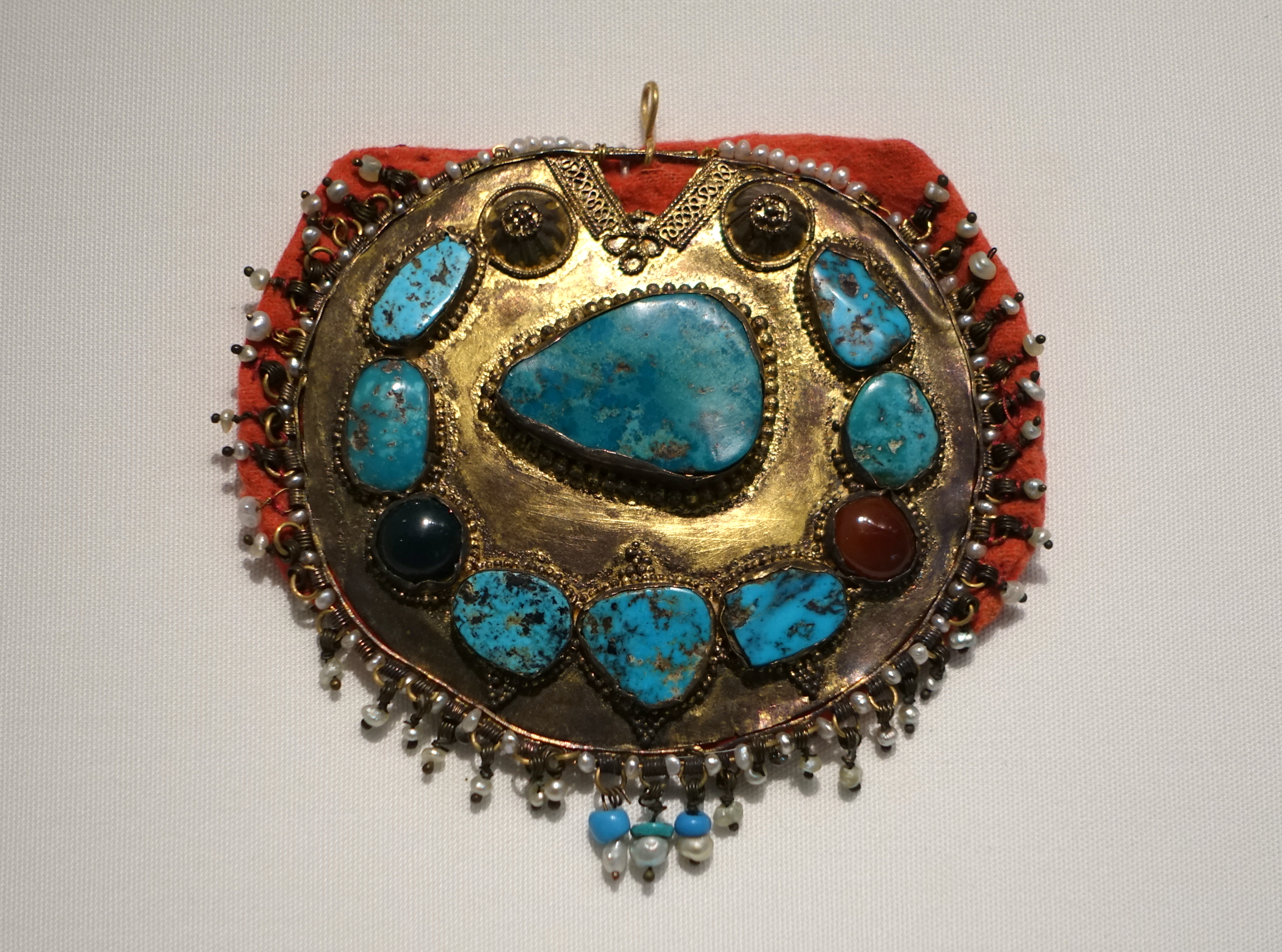 Exhibit in the Dallas Museum of Art, Dallas, Texas, USA.